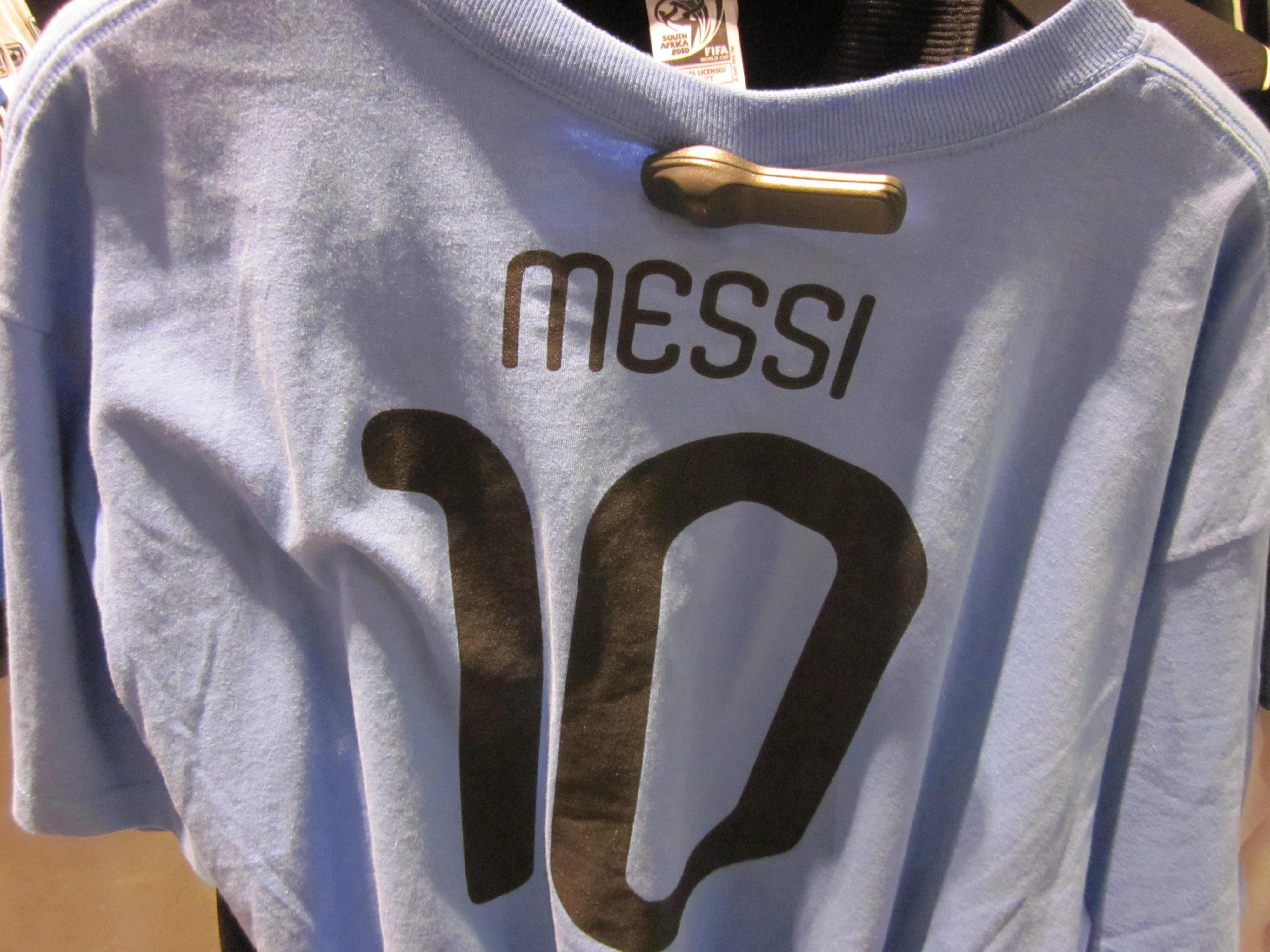 An Adidas Messi shirt.